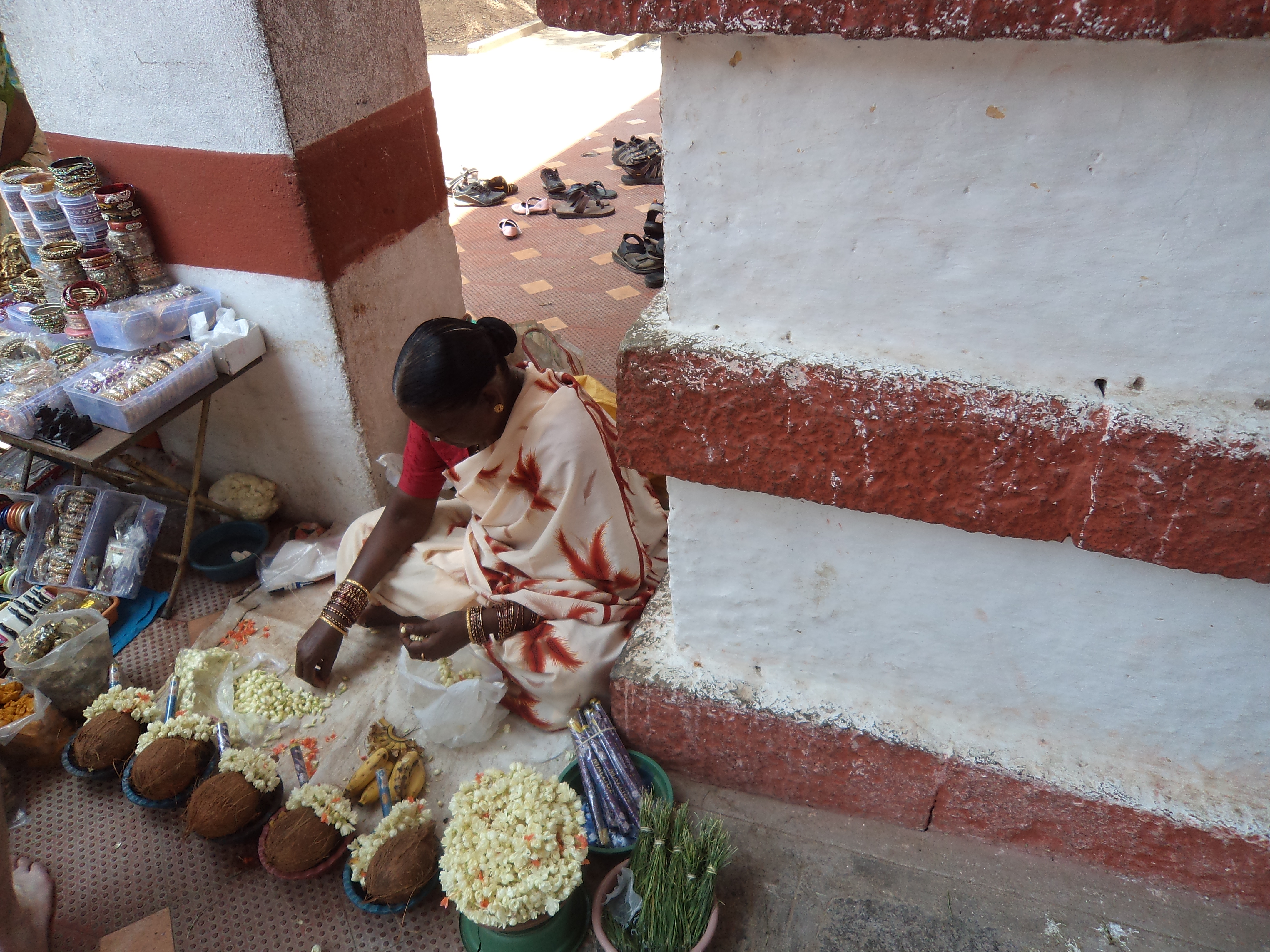 A flower vendor at a temple door step. Typically seen tying garlands out of flowers and thread. These flowers are sold to devootees visiting temple, who in turn offer these flowers to the diety of the temple.